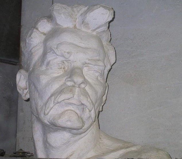 Гипсовый бюст советского писателя Максима Горького работы скульптора Ахмета Цаликова хранится в мастерской художника. Фотография работы предоставлена самим автором.